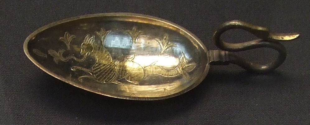 A silver-gilt spoon with a marine beast from the Hoxne Hoard. Currently in the British Museum.